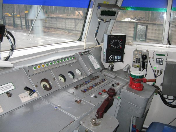 Cabin of electric train ER2-1225